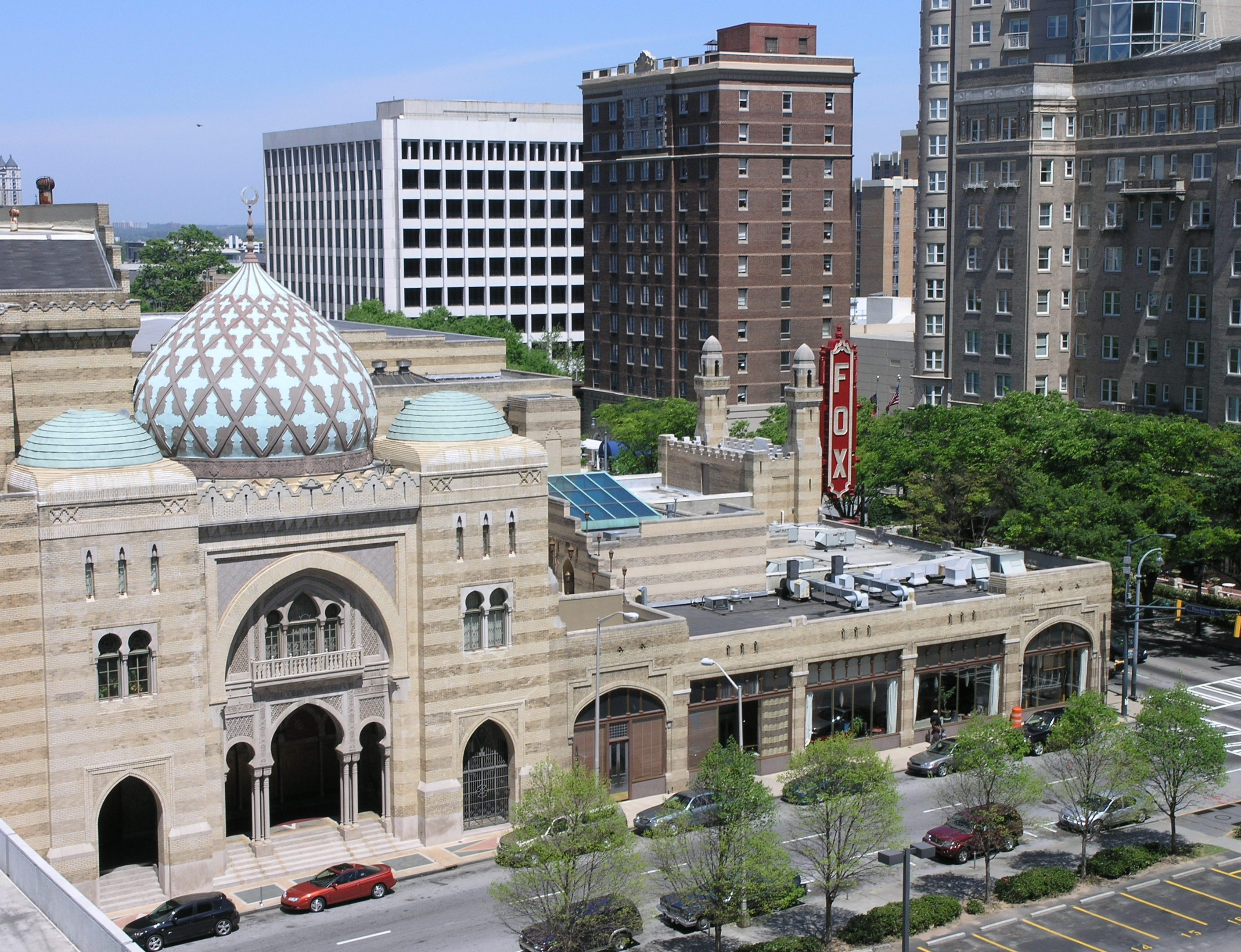 Photo taken in Atlanta area